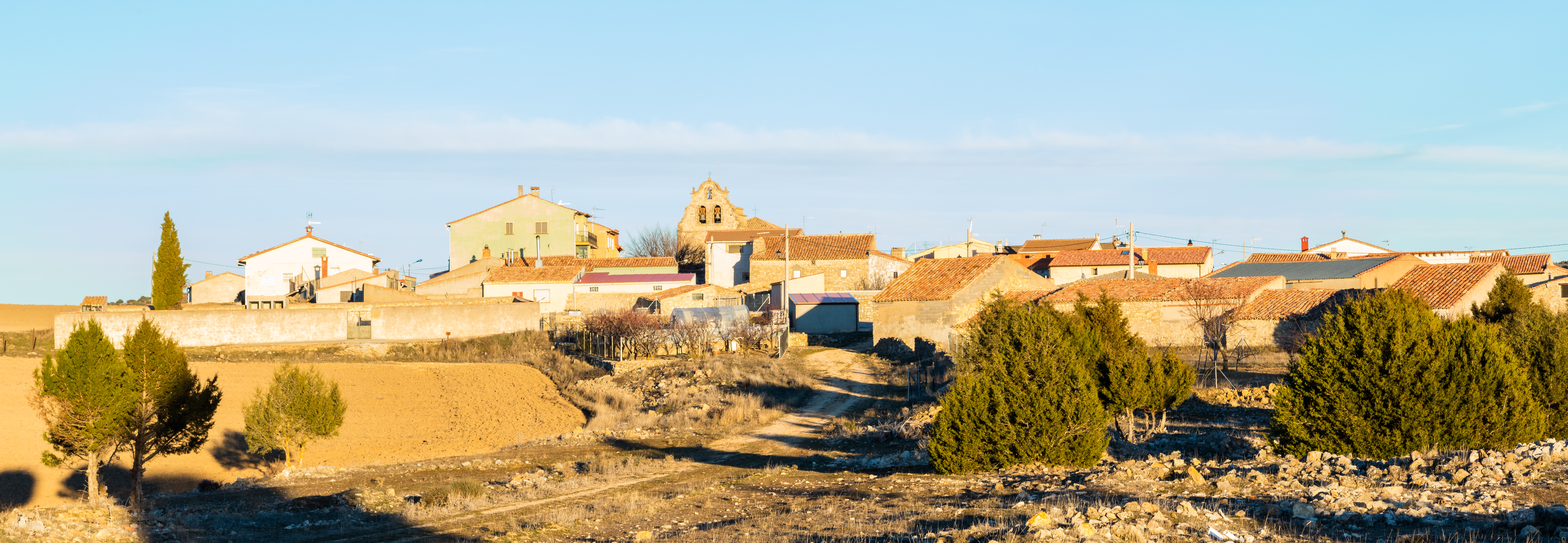 Amayas, Guadalajara, Spain